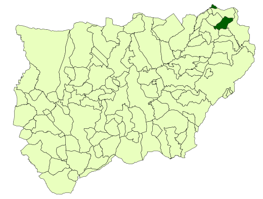 Situation of the municipality of Torres de Albanchez (Jaén, Spain).